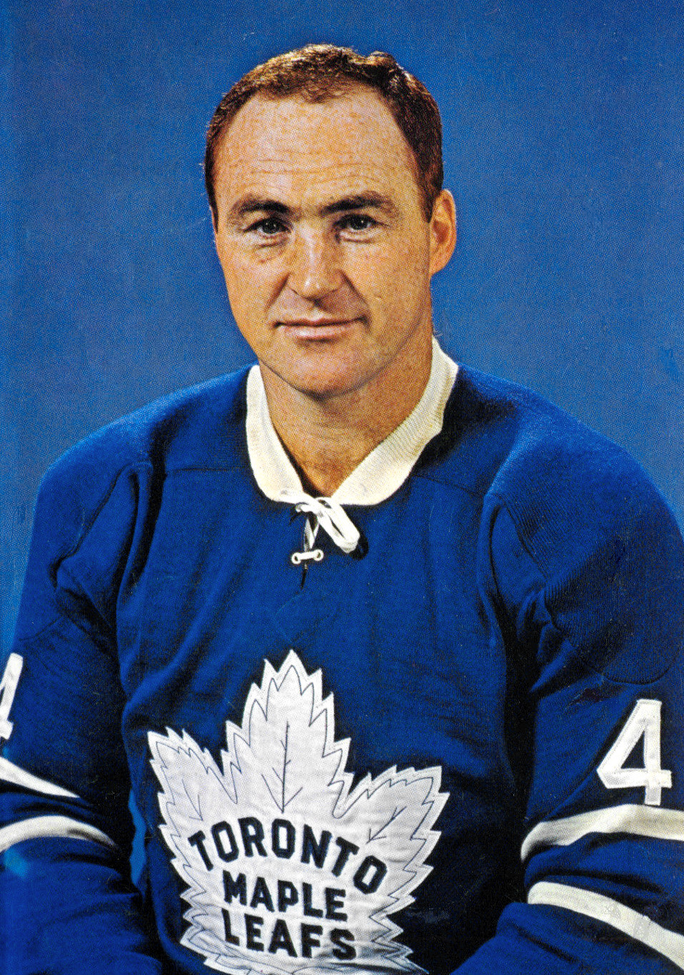 Trading card photo of Red Kelly as a member of the Toronto Maple Leafs. These cards were printed on the backs of Chex cereal boxes in the US and Canada from 1963 to 1965. Those collecting the cards cut them from the back of the boxes. Kelly's card at PSA.